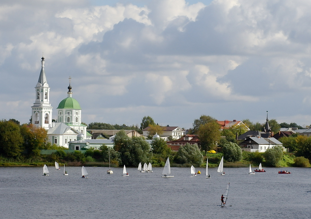 Затверецкая набережная On the Volga river in Tver', St Catherine Church on the left